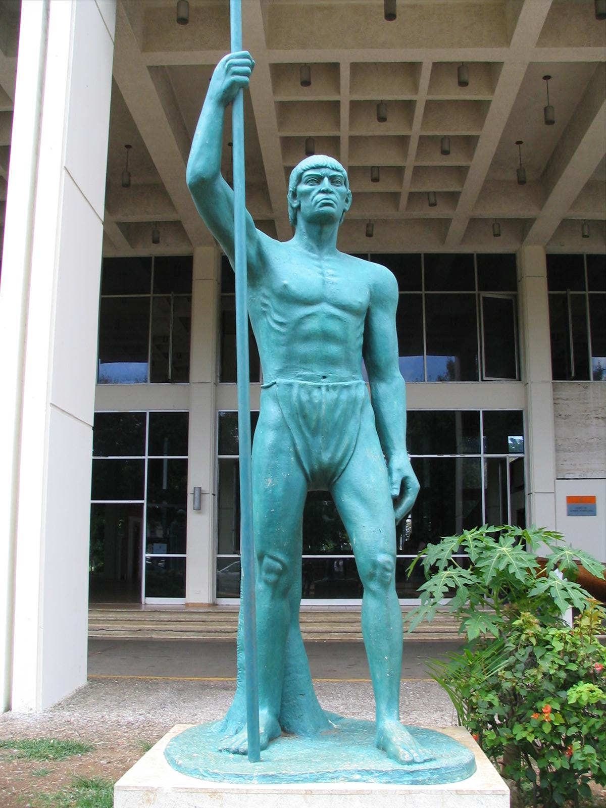 Statue of Enriquillo at the Museo De Hombre Dominicano, Santo Domingo, Dominican Republic. Taken by Darryl Ricketts, 19-6-2007